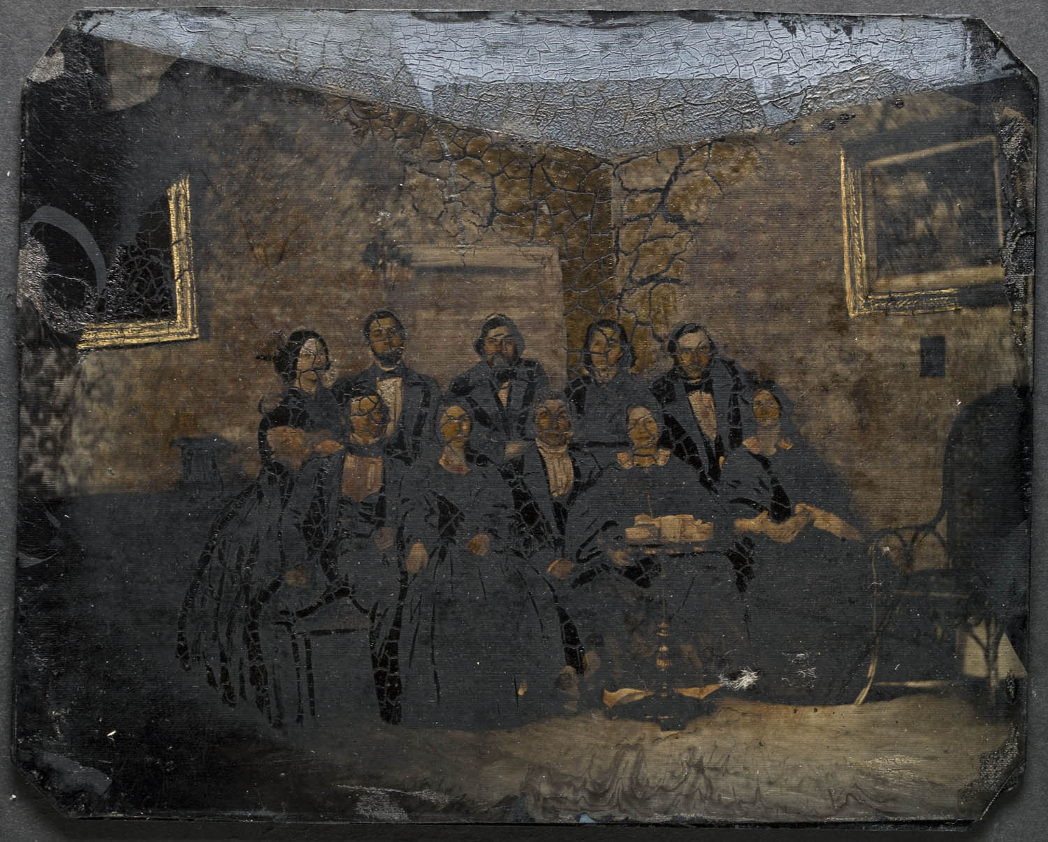 Depicted person: John Lundgren, GROSSHANDLARE